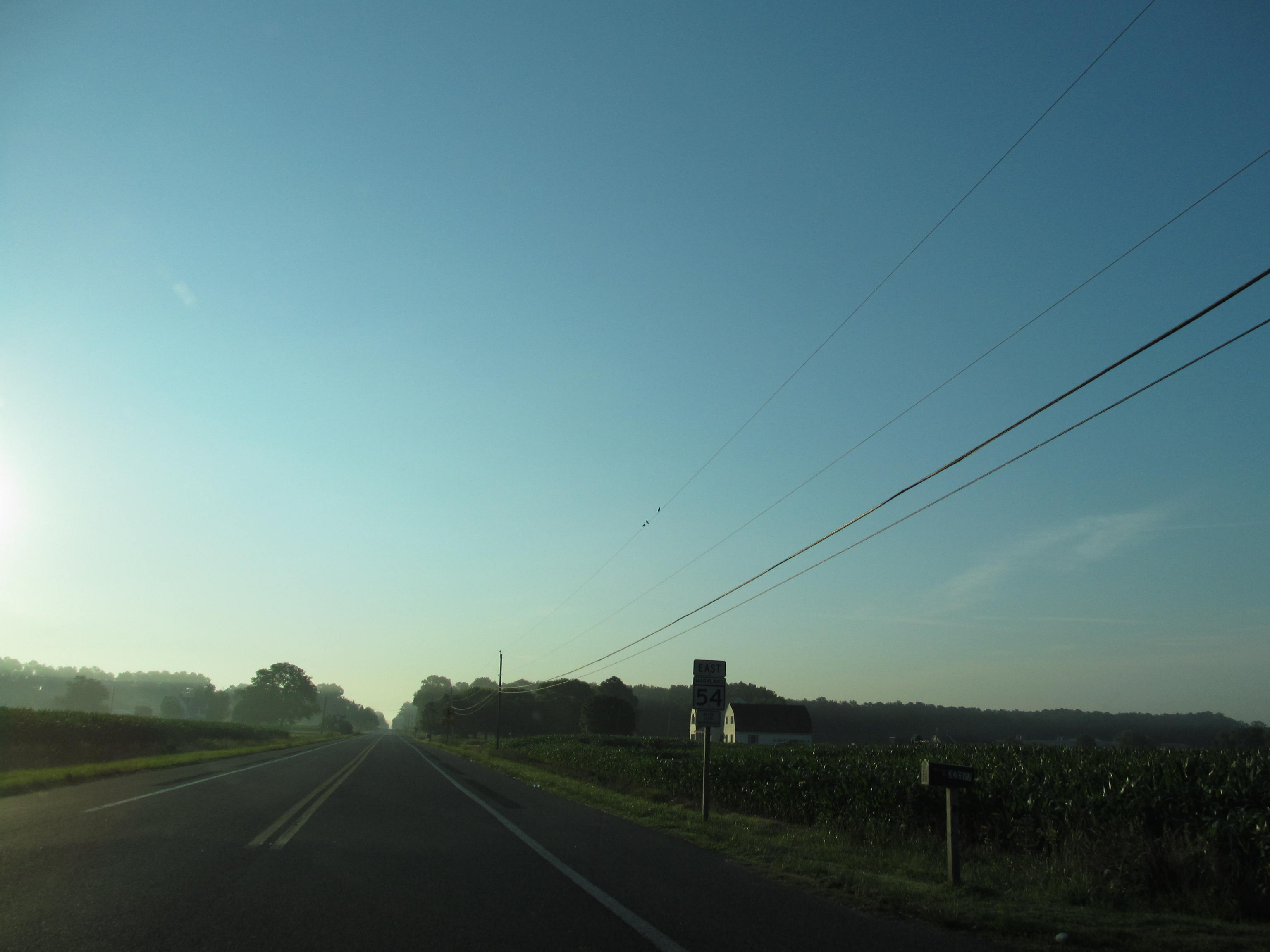 Eastbound Route 54 along the Delaware-Maryland border at the Brittingham Road intersection. At this intersection, maintenance changes from DelDOT to MDSHA.